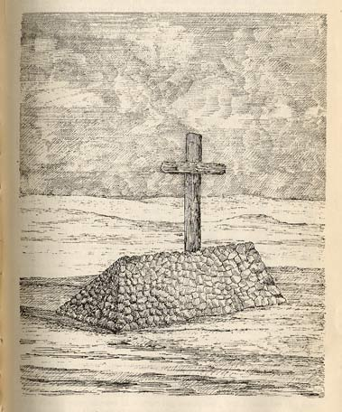 Cairn on which the Jeannette Monument is based. From the Annual Report of the Secretary of the Navy for the Year 1882, page following page 68.